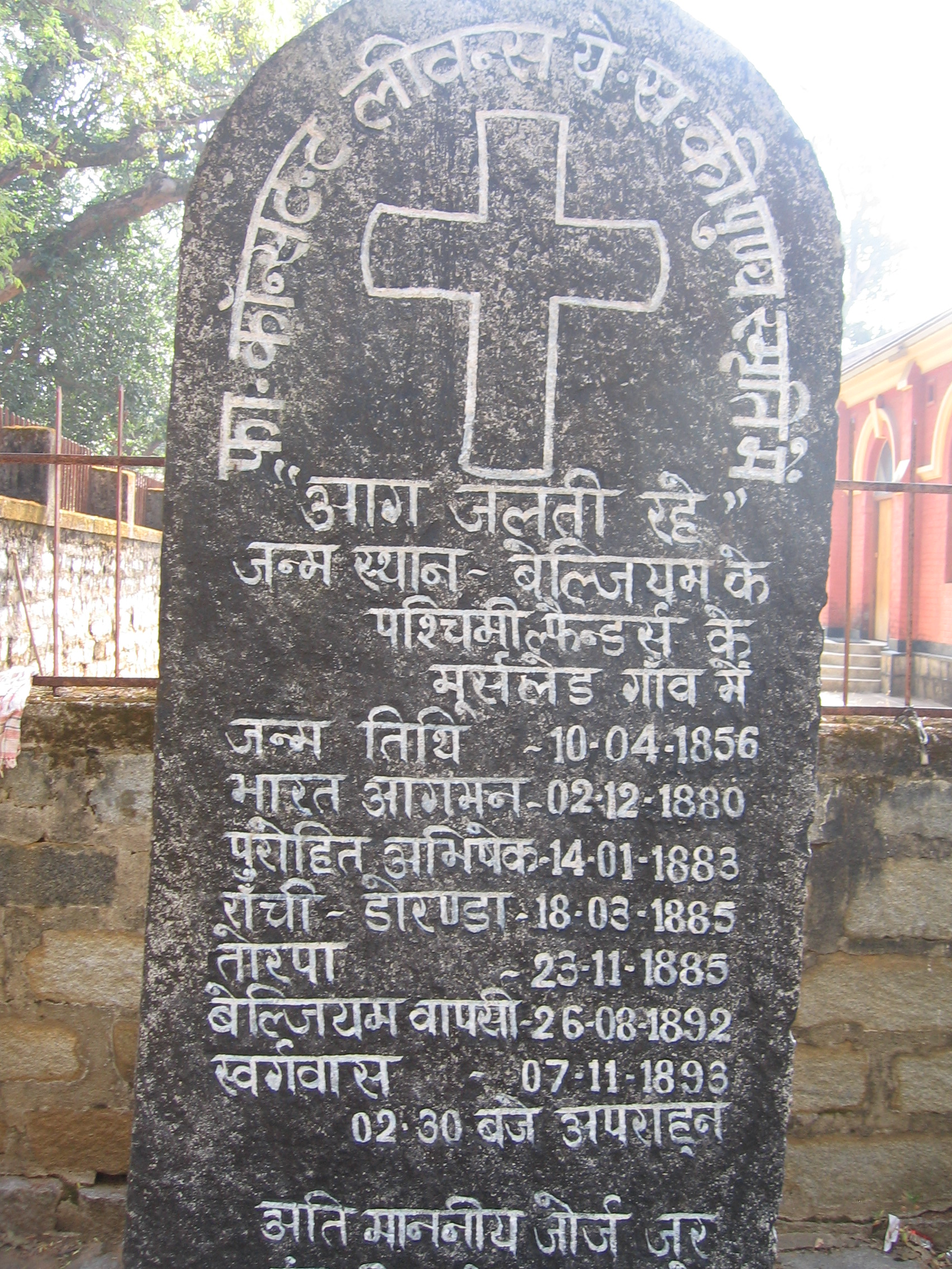 Traditinal memorial slab commemorating Fr Constant Lievens presence and work among the Mundas, in Torpa, Jharkhand (India)